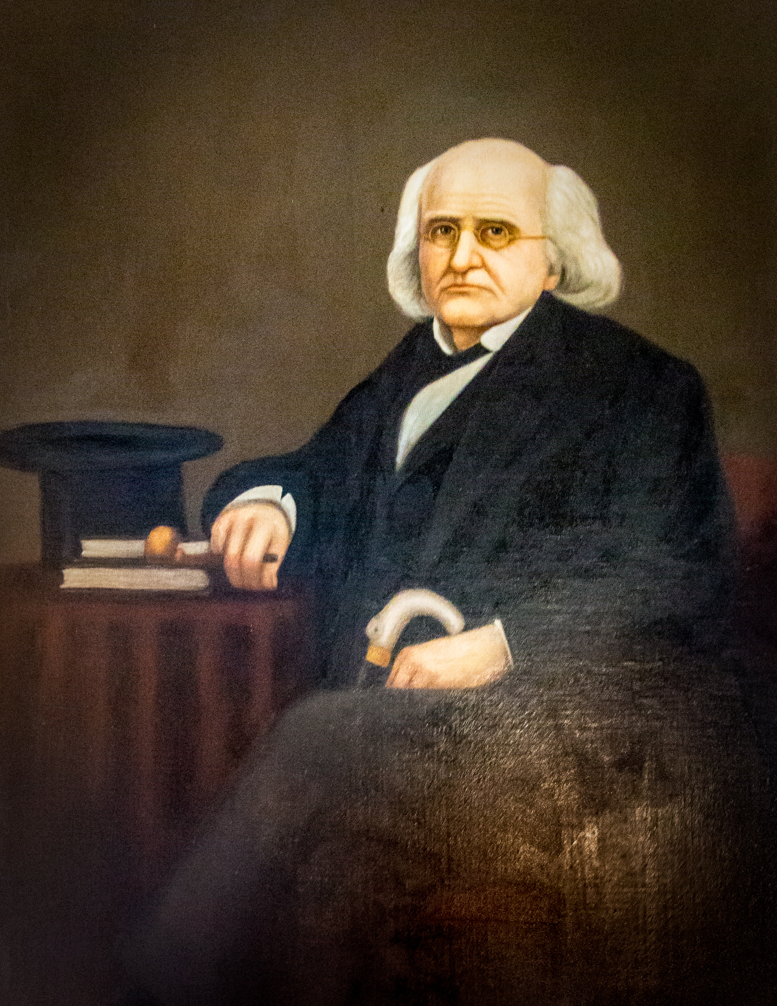 Samuel Dold Morgan . Portrait in the Tennessee State Capitol, Nashville, TN.